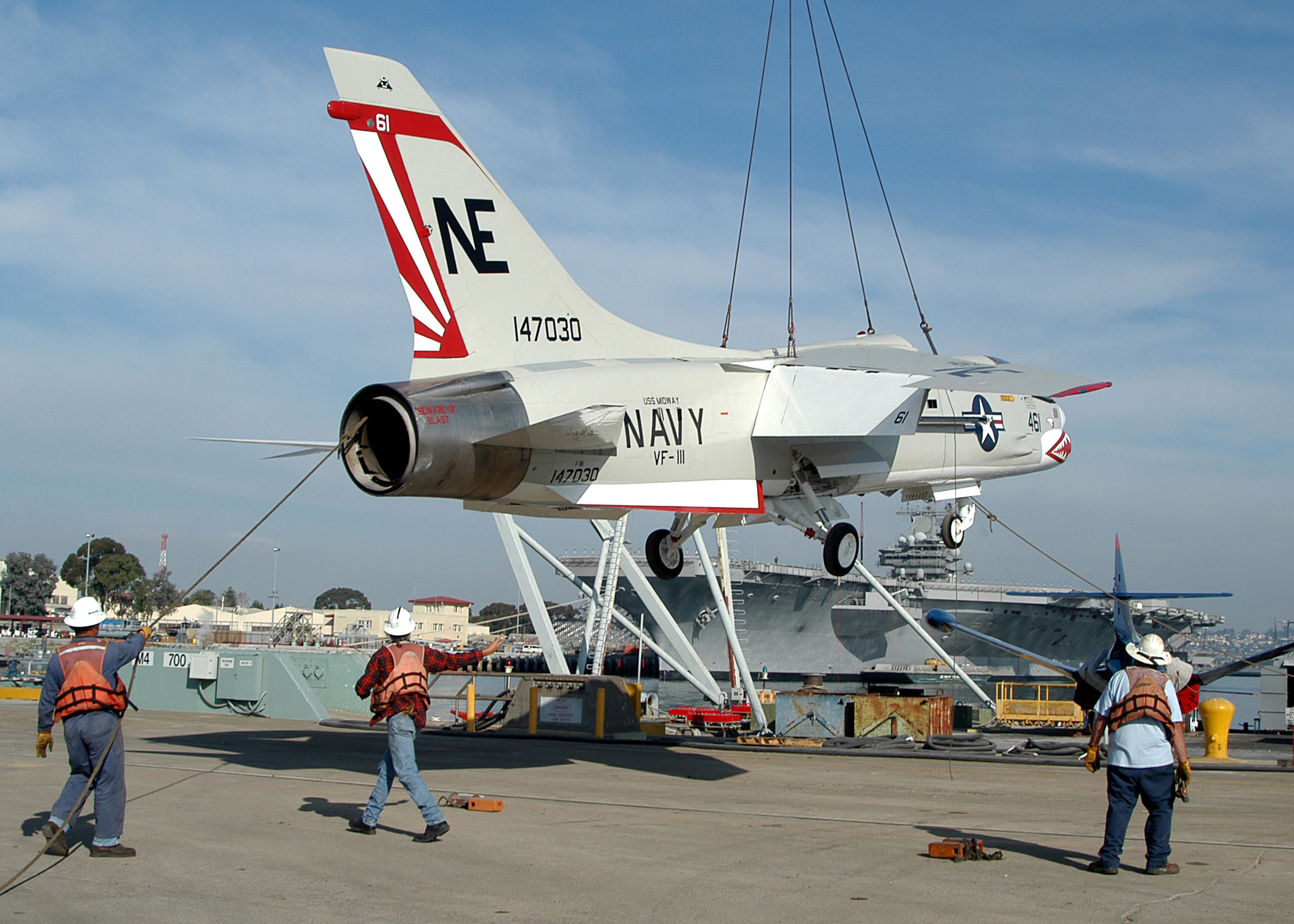 Crane riggers from the U.S. Navy Public Works Center (PWC) guide a F-8K Crusader aircraft onto a floating barge for delivery to USS Midway (CV 41) museum in downtown San Diego.